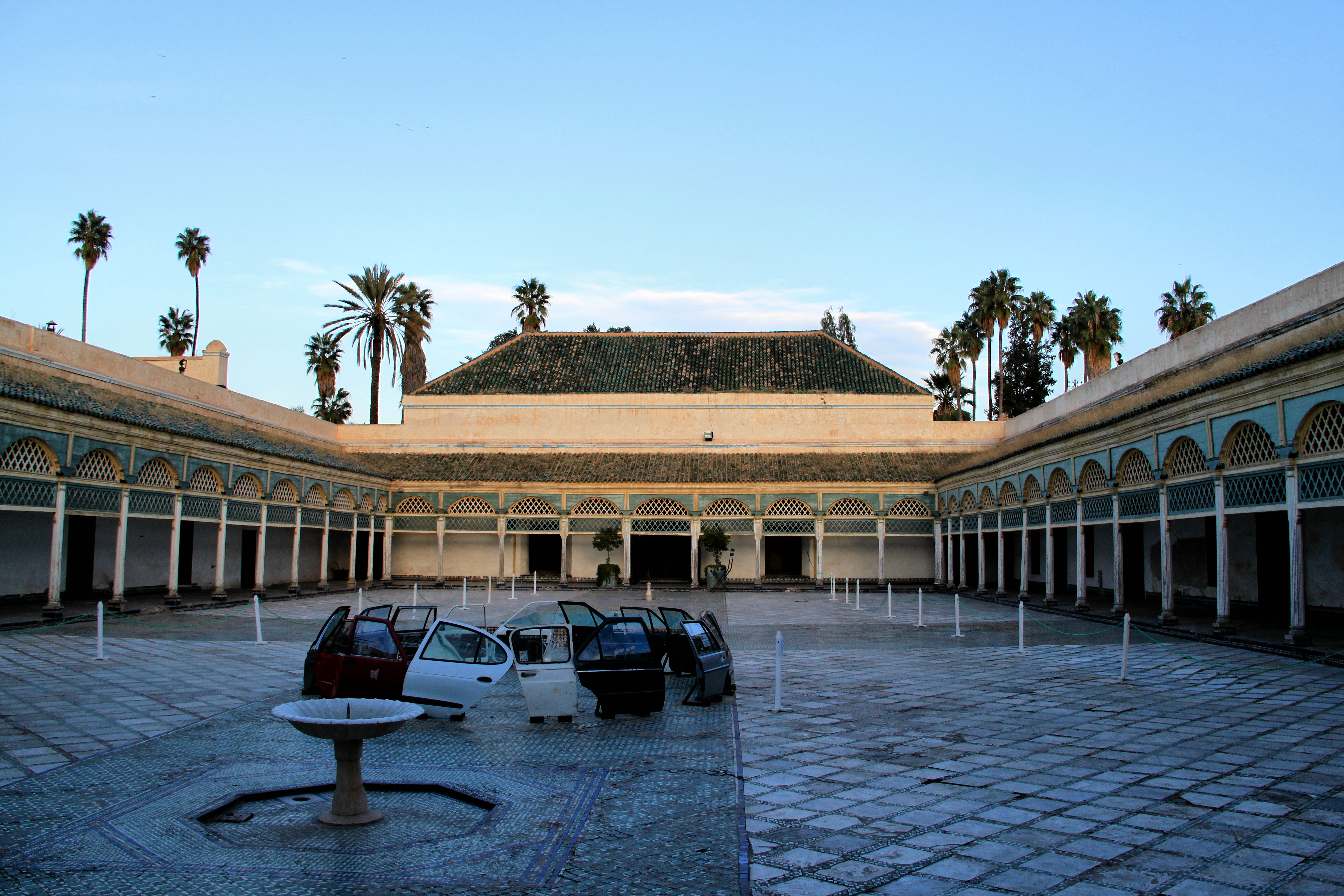 Back courtyard of the Bahia Palace, Marrakech - 2009